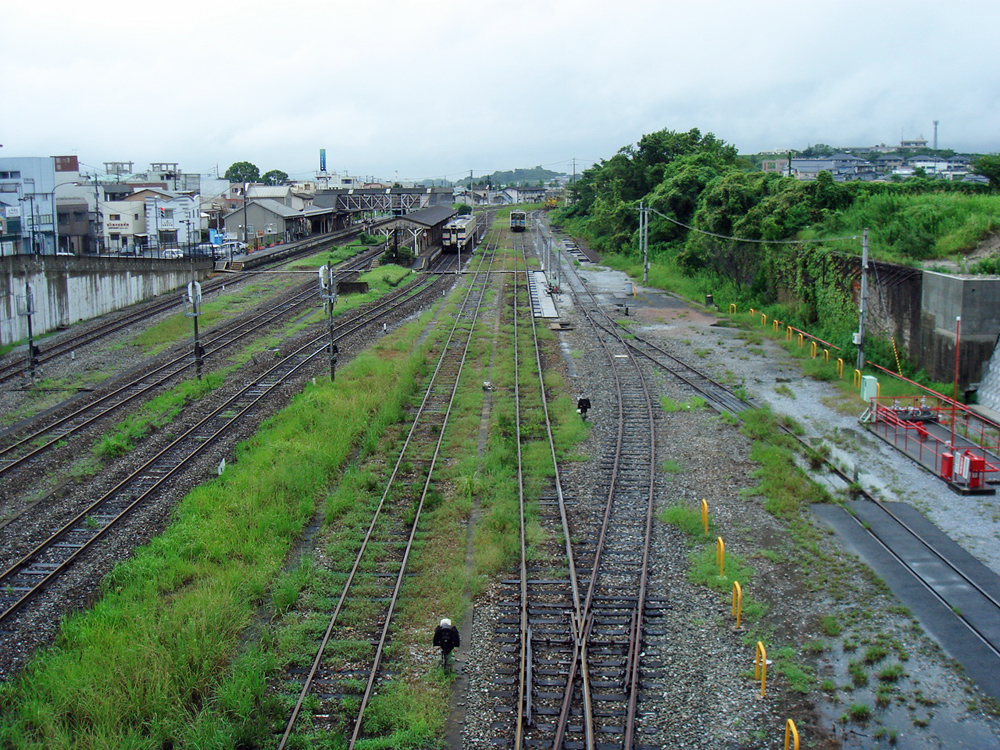 Tagawa-Gotoji Station